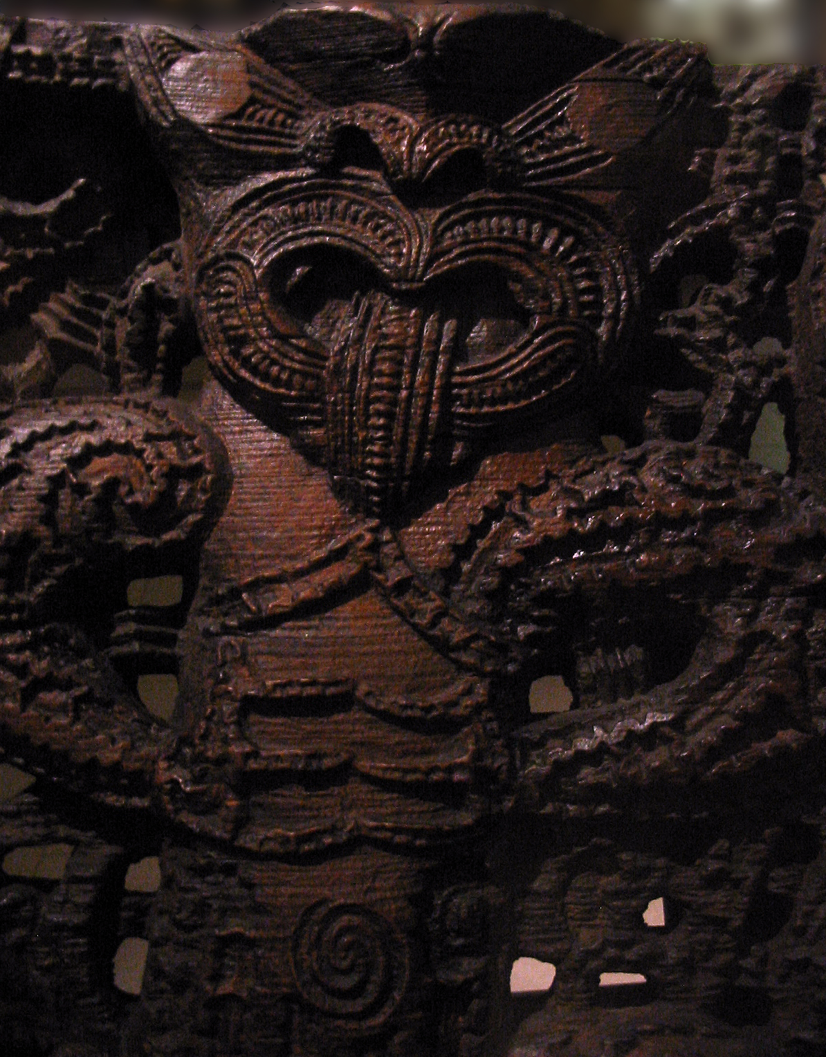 Paepae pataka (threshold of a storehouse), Maori carving, Ngati Porou, Waiapu Valley. In the style of the Te Rawheoro school of learning (whare wananga) established during the 18th century at Uawa by Hingangaroa. Auckland Museum, 20 May 2006. Photo by uploader, no rights reserved. Kahuroa 18:50, 24 May 2006 (UTC)